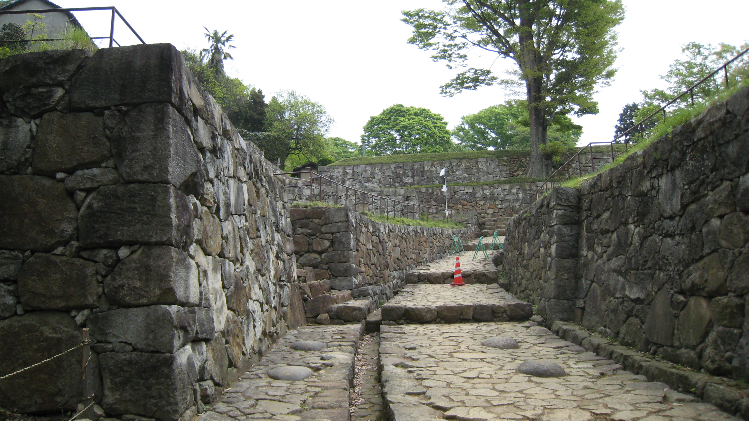 Kanayama Castle in Ota, Gunma Prefecture, Japan, built in the 15th century.